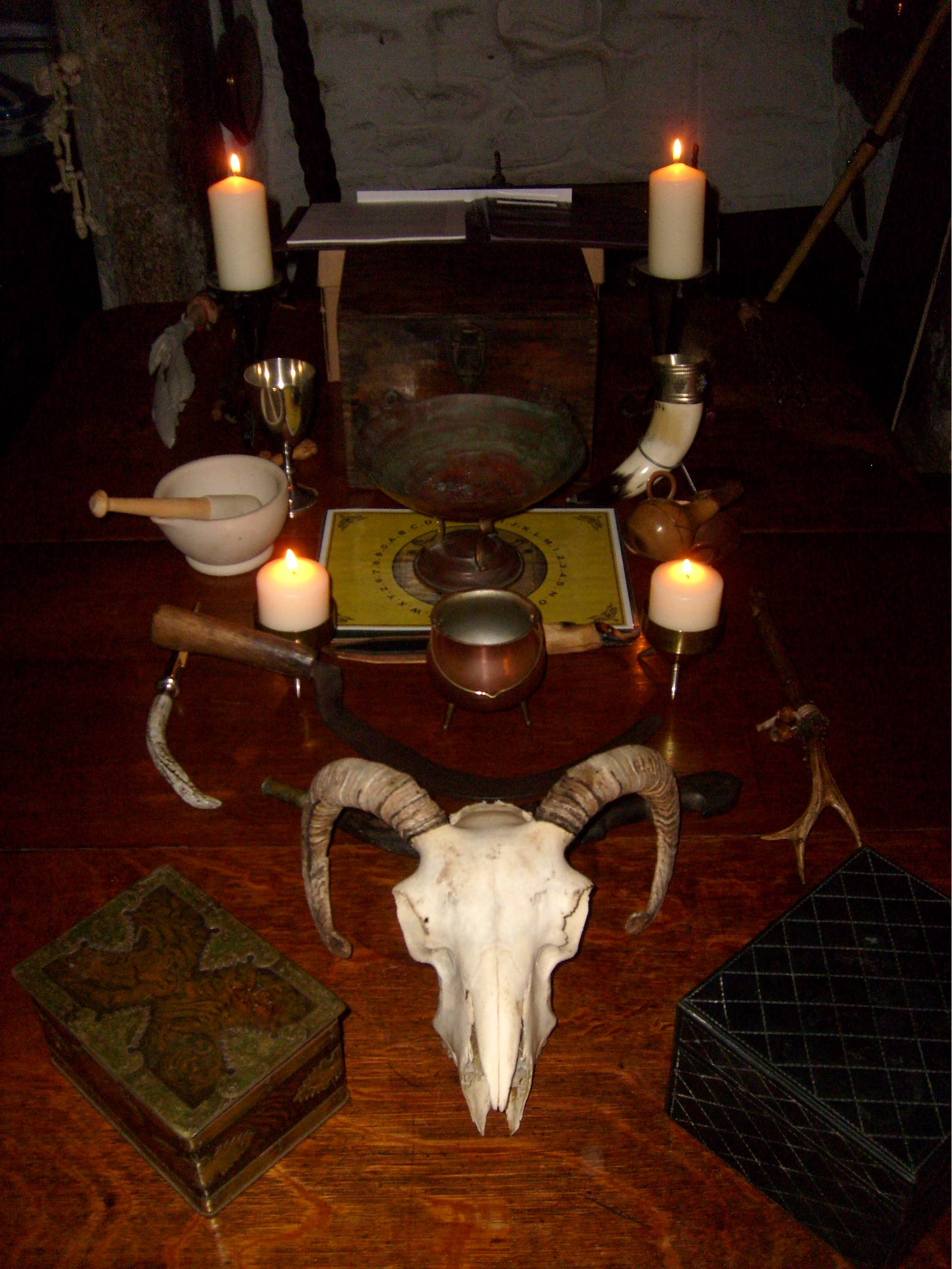 Pagan Altar & Witchcraft tools From Mal Corvus Witchcraft & Folklore artefact private collection owned by Malcolm Lidbury (aka Pink Pasty)